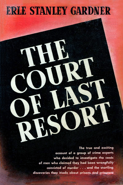 Front cover of the dust jacket for Erle Stanley Gardner's nonfiction book, The Court of Last Resort. The work earned Gardner his only Edgar Award (in the Best Fact Crime category) and inspired the NBC TV series The Court of Last Resort (1957–58).